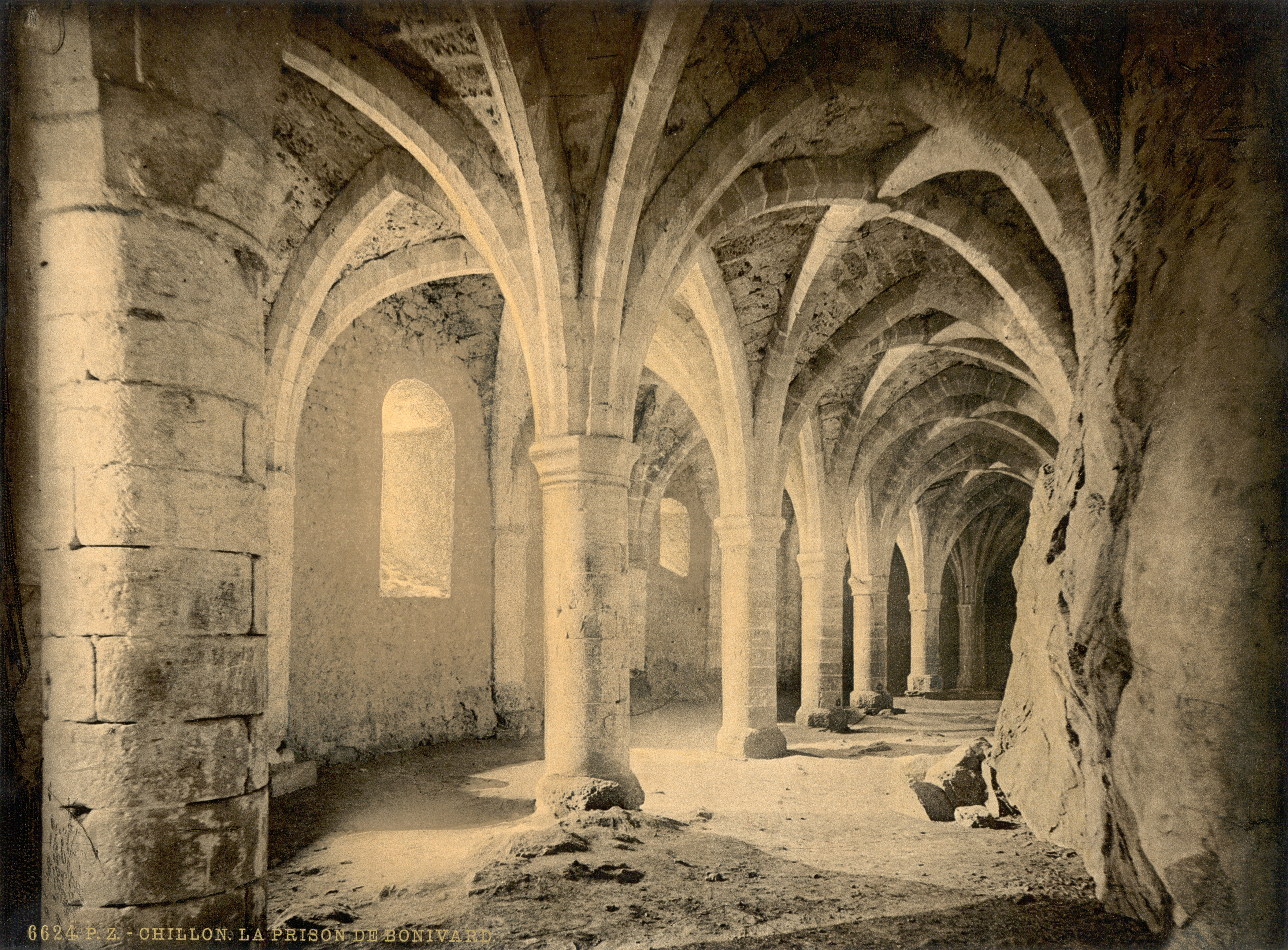 Chillon Castle interior Bonivards Prison Geneva Lake Switzerland